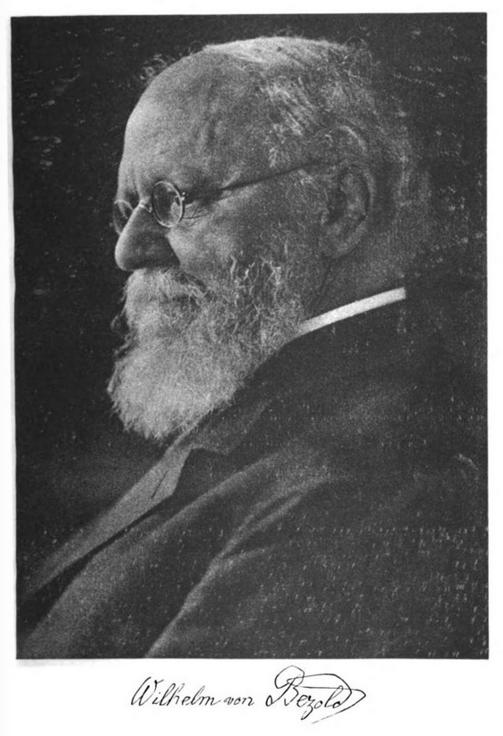 Wilhelm von Bezold (1837-1907)